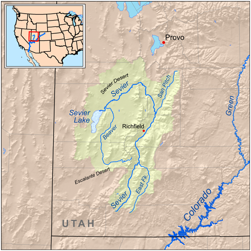 Map showing the Sevier Lake/Sevier River drainage basin.South of Great Salt Lake:west-to-easten:Cedar Mountains (Tooele County), Skull Valley (Utah), Stansbury Mountains, Tooele Valley, Oquirrh MountainsMountain ranges around Utah Lake:en:Lake Mountains-(west border), Traverse Range-north, Wasatch Range, NE,E, & SE, East Tintic Mountains-south-southwestNorth of Sevier drainage:en:Sheeprock Mountains-(attached north), Onaqui Mountains, northwest